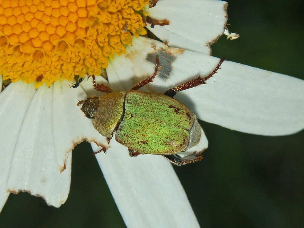 Hoplia argentea. Male